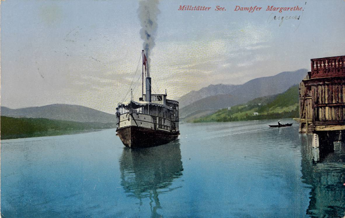 Steamer on the lake of Millstatt / district Spittal an der Drau in Carinthia / Austria / EU. Postcard.